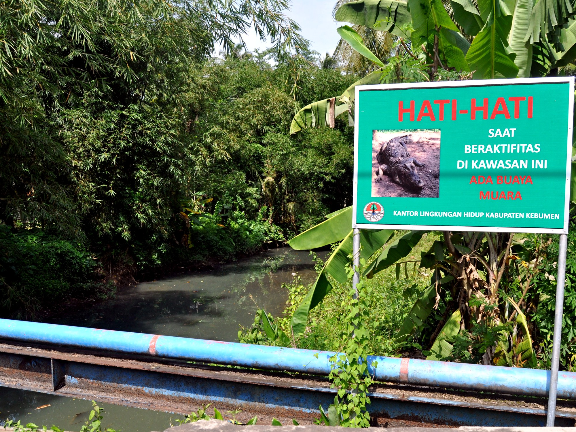 Crocodile warning-sign at Teba river in Ayah, Kebumen Regency, Central Java.